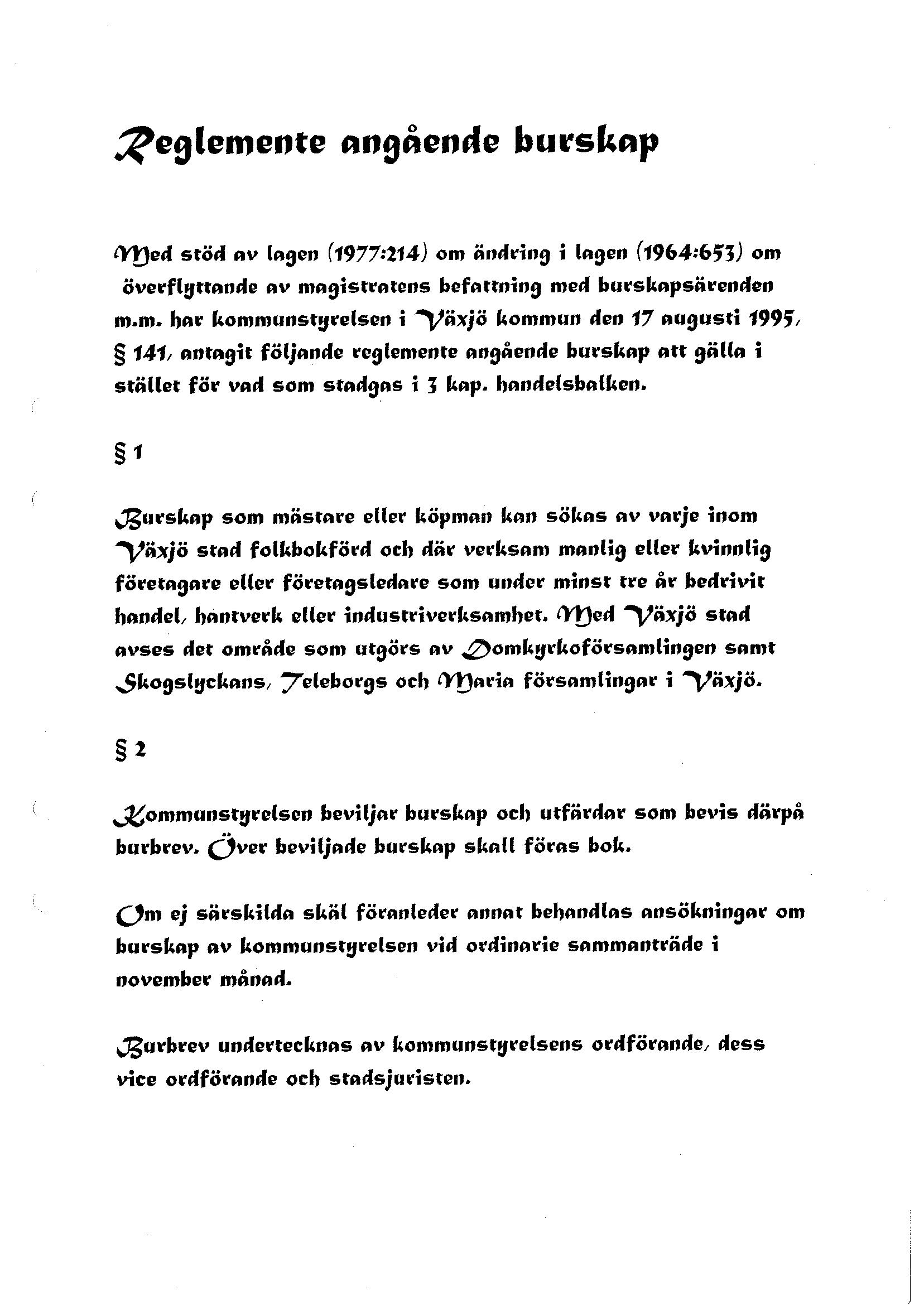 Burskapsreglemente för Växjö.